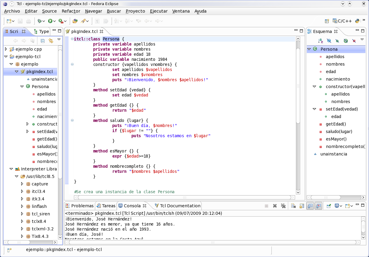 incr Tcl program example in Eclipse IDE with eclipse-dltk-itcl plugin, running under Fedora 11 Leonidas with KDE 4.2.4. The program is based in program example in incr Tcl.